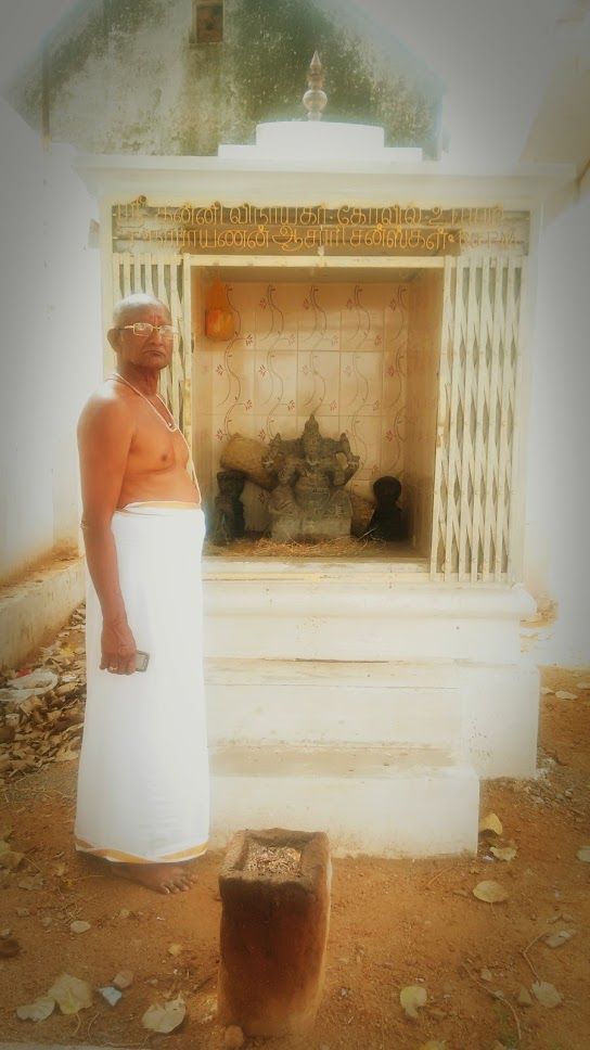 Newly built Pillaiyar temple inside the temple campus